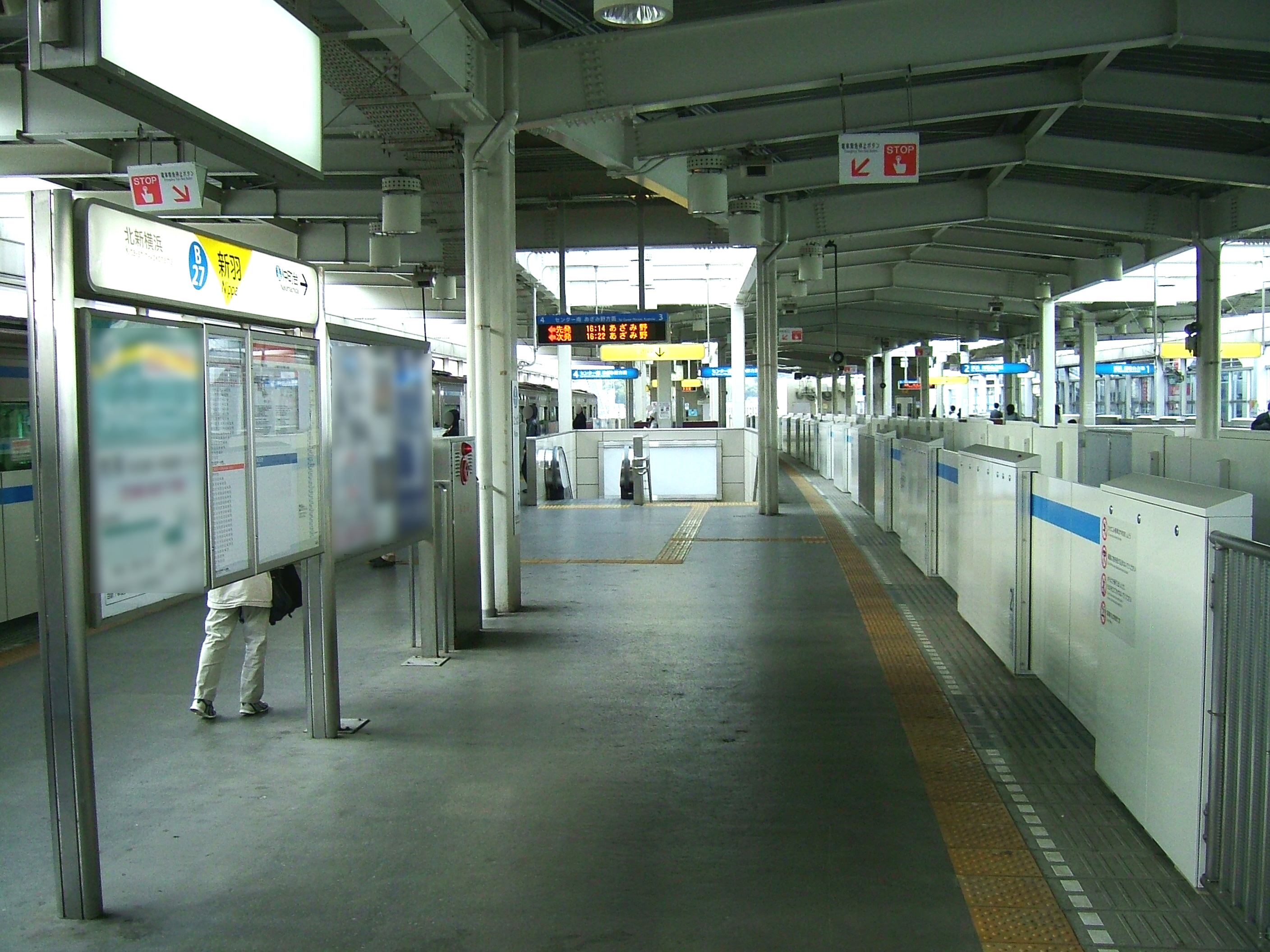 Nippa Station platform (Yokohama Municipal Subway Blue Line)